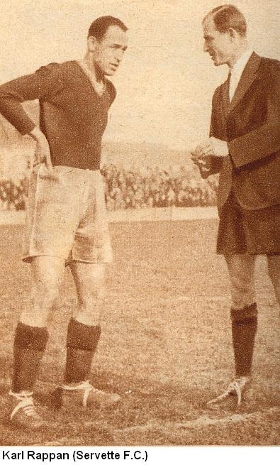 Karl Rappan playing for Servette in season 1934/1935